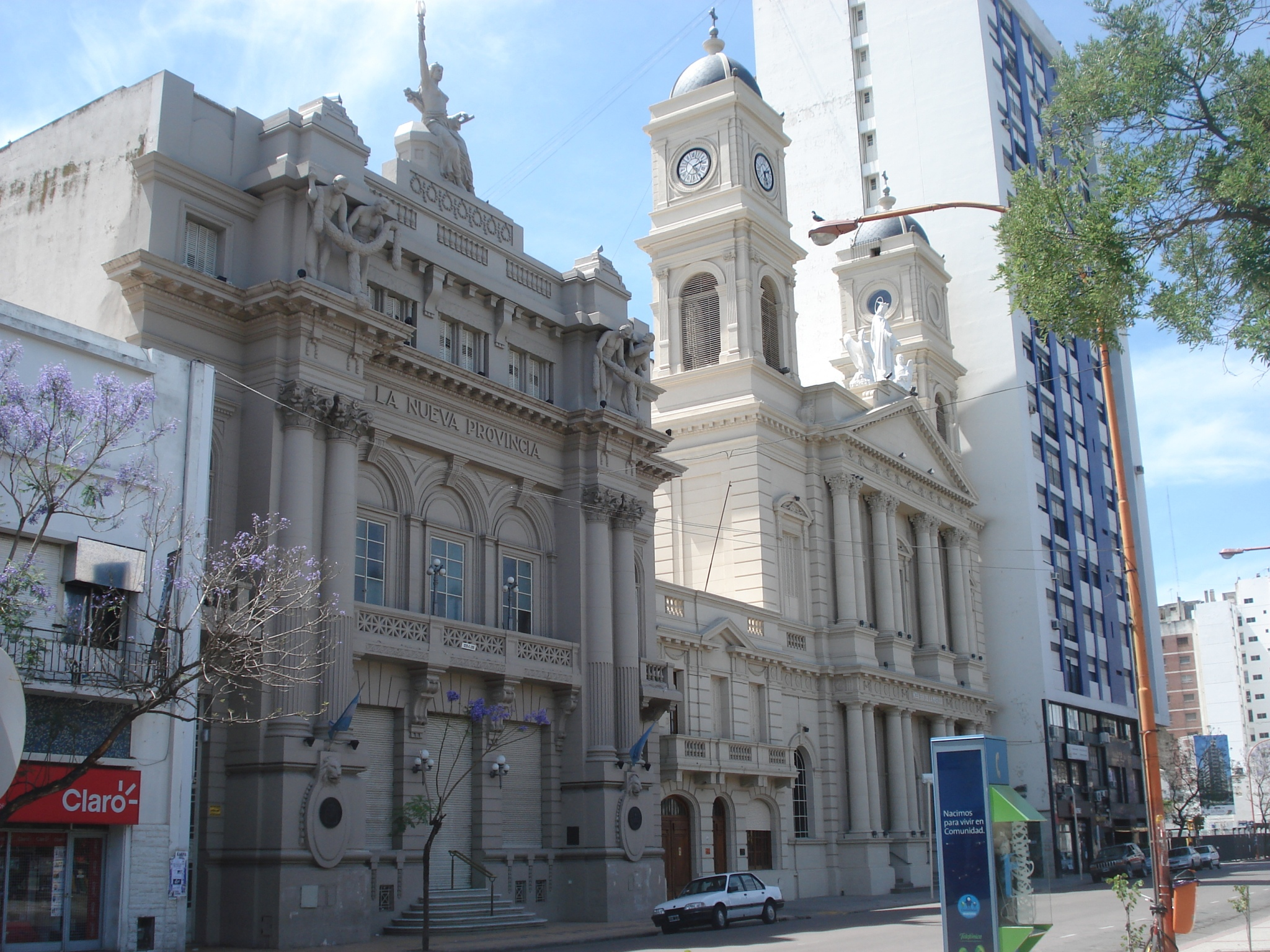 The Lawyers' Guild of Bahía Blanca (built in 1928 as the headquarters of the news daily La Nueva Provincia), and the Cathedral of Our Lady of Mercy (completed in 1929).